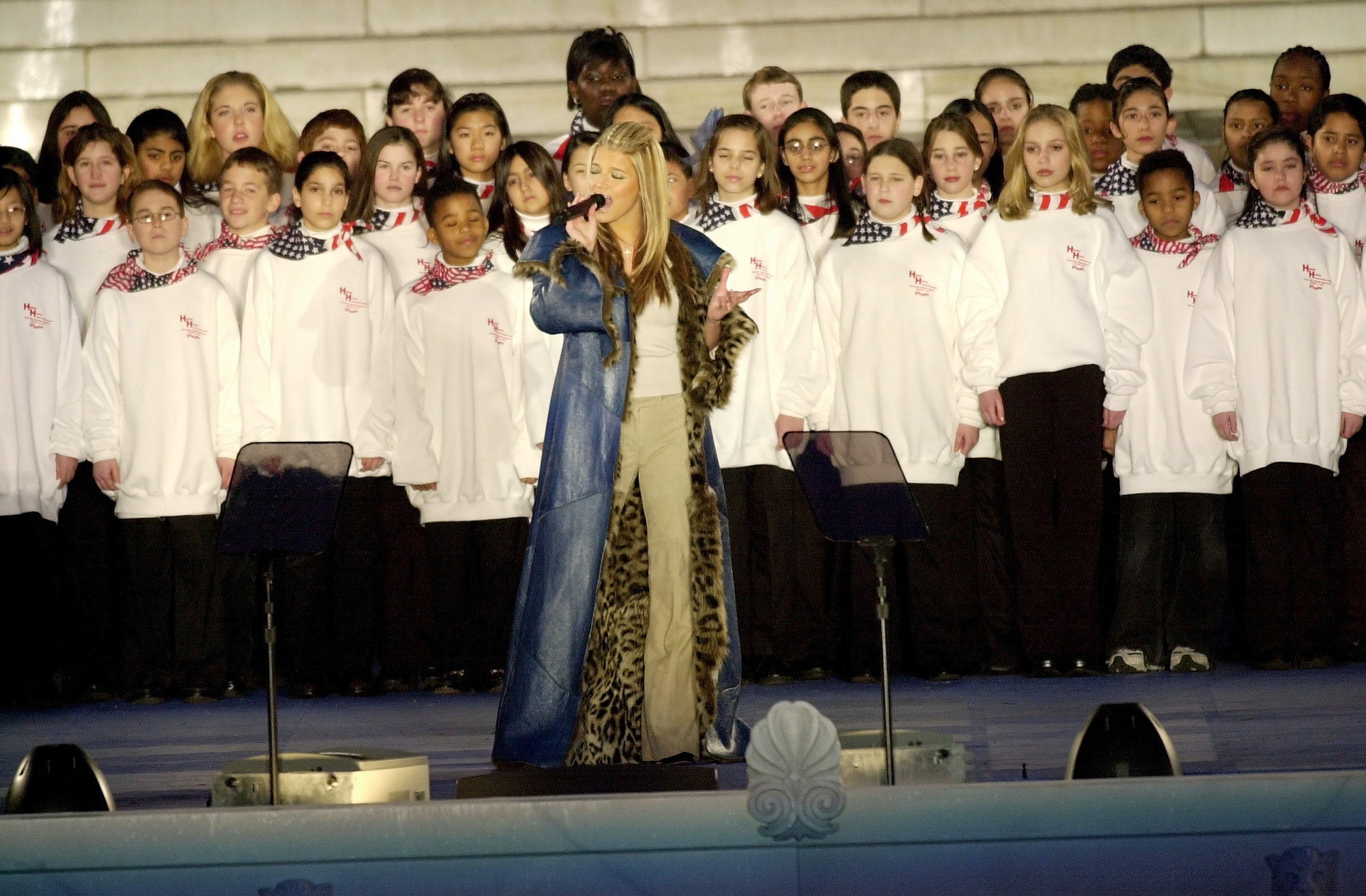 Recording artist Jessica Simpson performs for thousands of people gathered for the star-studded 54th Presidential Inaugural Opening Celebration held on the steps of the Lincoln Memorial, Washington, D.C., Jan. 18, 2001. More than 50,000 people gathered to watch the celebration which ended with a performance by the Latin pop star Ricky Martin and a gala fireworks display.